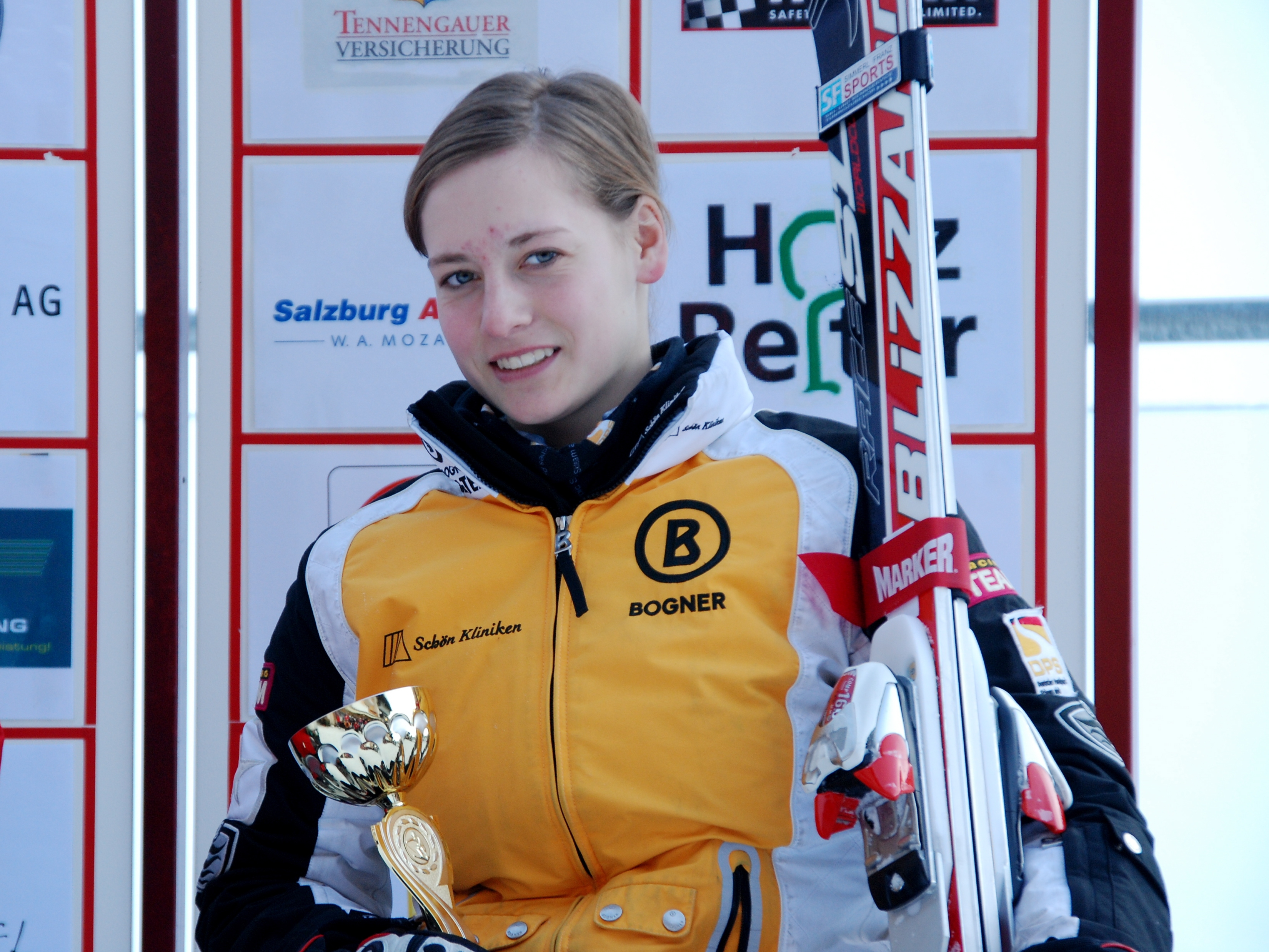 Anna Schaffelhuber, German monoskier, on the podium (2nd place) of the Slalom in Rinn (Patscherkofel mountain), Austria